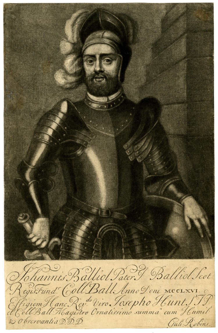 "Portrait of John Balliol," mezzotint, by the British printmaker William Robins. 350 mm x 162 mm. Courtesy of the British Museum, London.